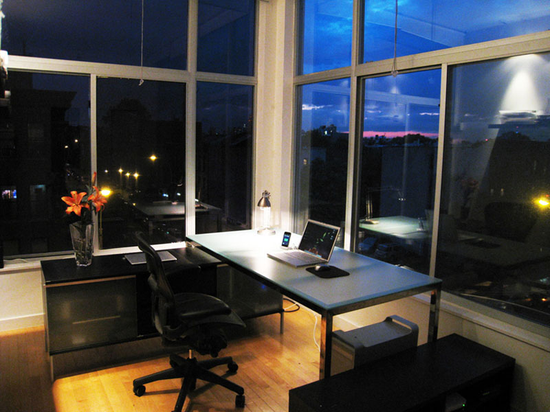 I've spent the past few months figuring out how to scale down many of the things i don't need and keeping my home office very minimal. That included ditching the large 30" apple cinema display (it blocked my view out the windows!) and going back to a simple laptop with two headless servers (on old G5 osx server pictured, and one ubuntu dual core 2.8ghz hp proliant server hidden behind the desk) I've hidden my speakers behind the desk and stream via an airport express station to minimize cord plugins. The two cables visible below the desk have been hidden (ethernet for the osx server and some other cable) didn't see them in the photo til it was too late. I've purchased an all-in-one scanner/printer that fits comfortably in the sliding glass door cabinet for easy access. My old and faithful aeron chair finally made it's return home from vermont. Thank you for the gift adam, it's lasted me years! For white board drawings, i use dry erase markers on the glass windows. I make sure i don't write any sensitive data on them as they're clearly visible from the street :) This provides maximum desk space to work with while not being distracted. i work from home occasionally (i'm a senior linux systems engineer for mtv networks/viacom) so i wanted someplace enjoyable to work without losing focus on my tasks. I didn't have any stones to put in the vase for the flower, so i ended up using all the silver change i could find. This works great because it looks interesting, but also makes it easy to ditch extra pocket change into it conveniently. No pennies allowed!